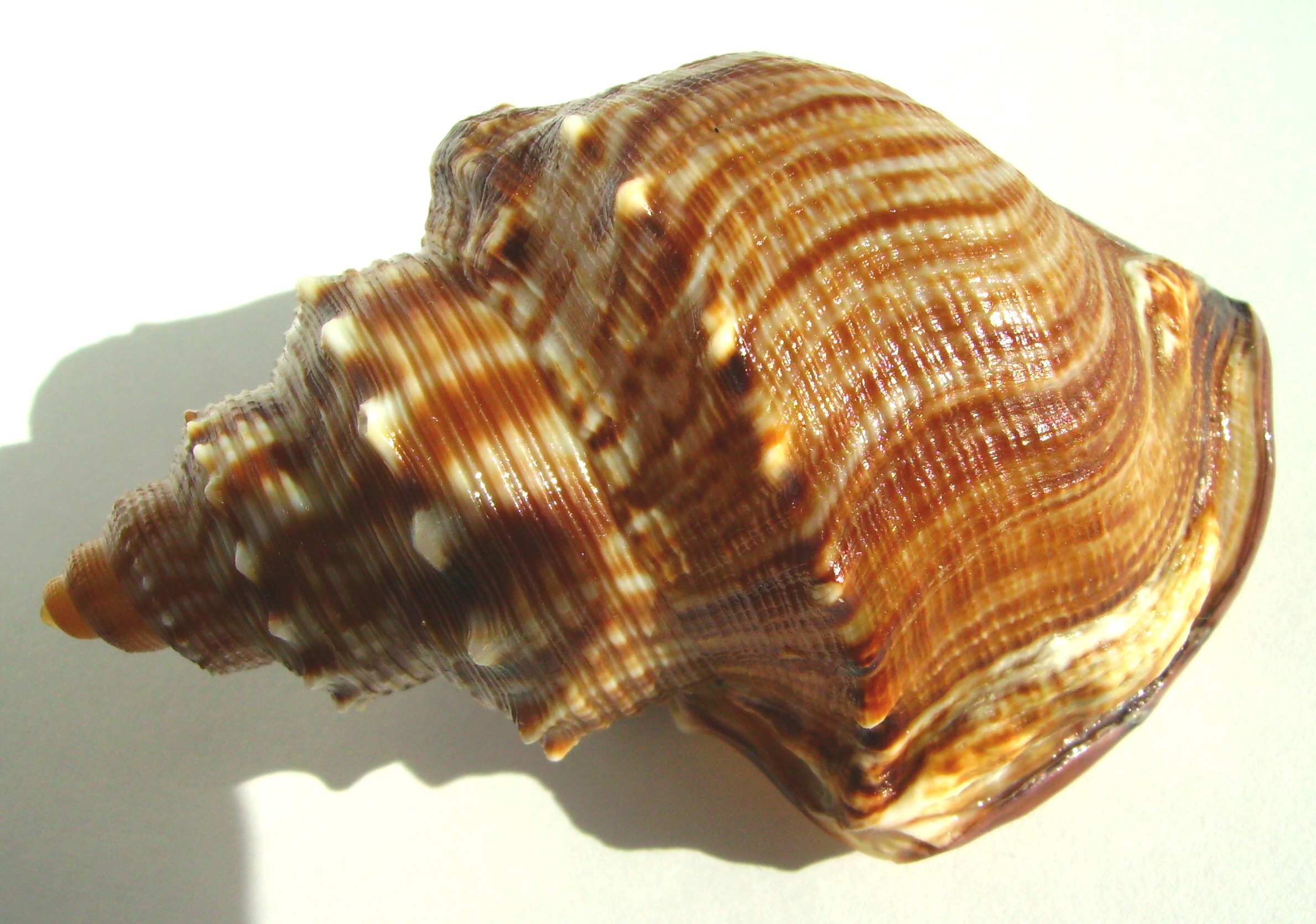 Struthiolaria papulosa (ostrich foot) dredged from Northland east coast, New Zealand. This work has been released into the public domain by its author, Graham Bould. This applies worldwide.In some countries this may not be legally possible; if so:Graham Bould grants anyone the right to use this work for any purpose, without any conditions, unless such conditions are required by law.